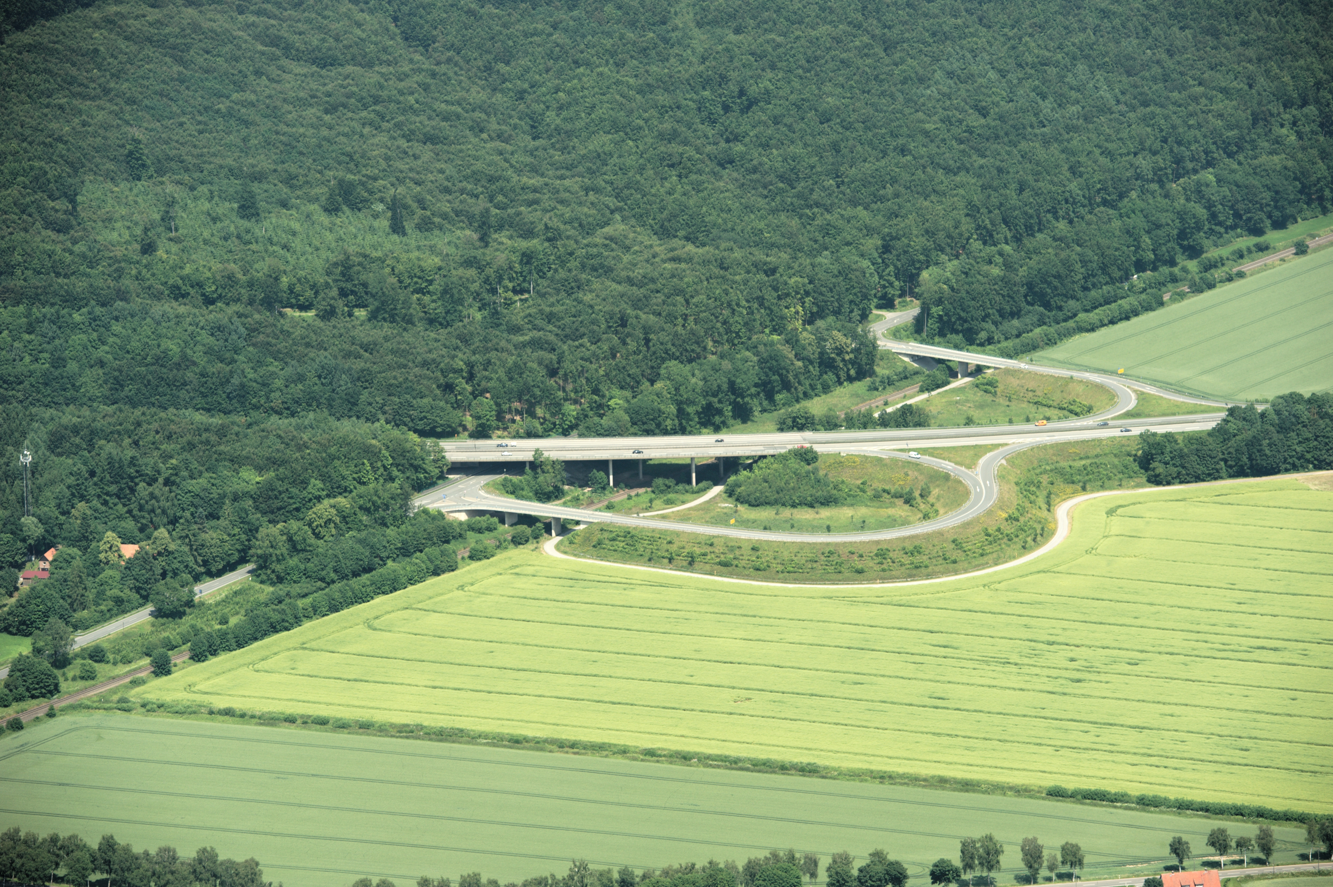 Fotoflug Sauerland-Ost, Anschlussstelle Marsberg der A 44 im Kreis Höxter The making of this document was supported by the Community-Budget of Wikimedia Germany.